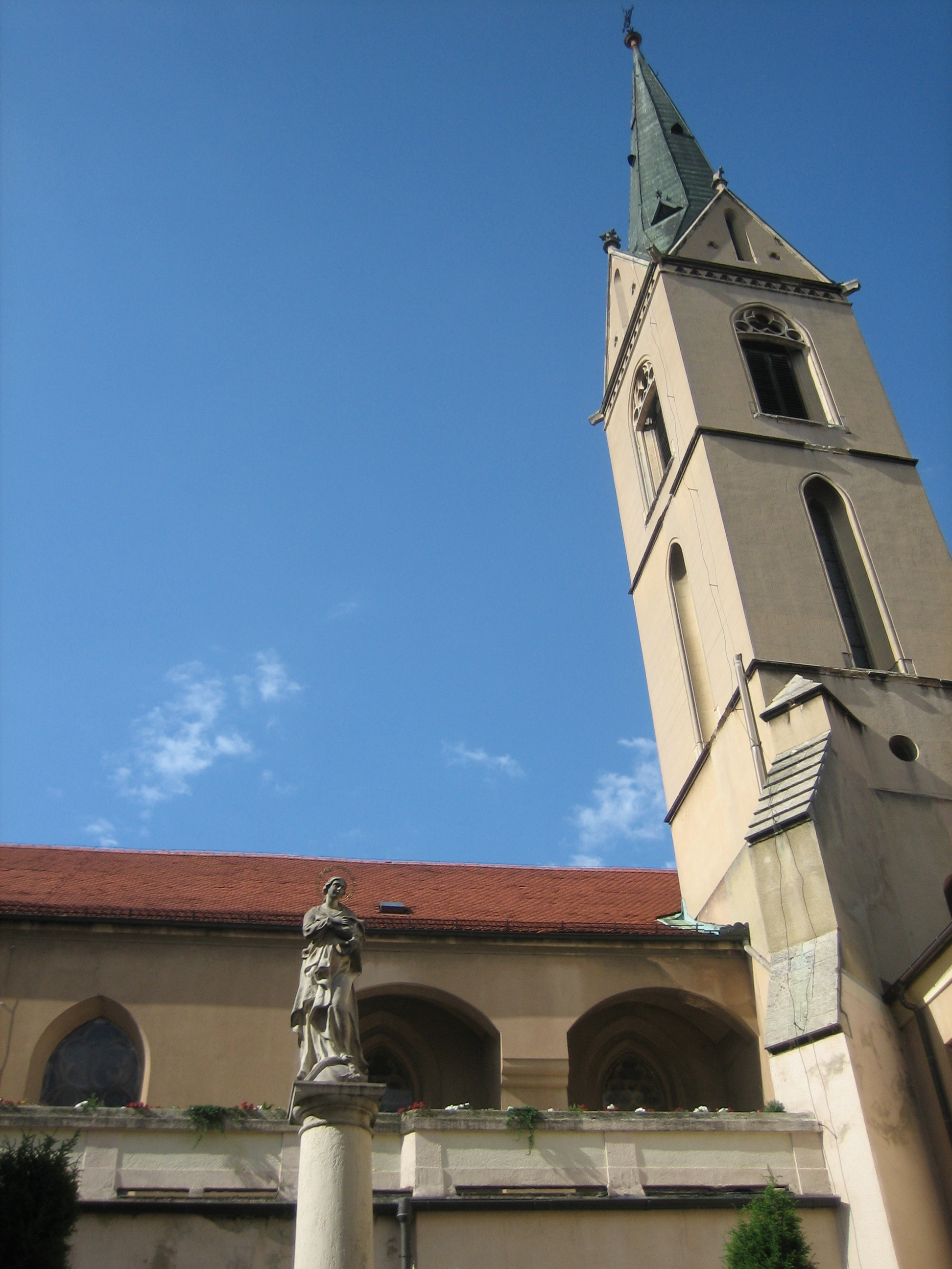 St. Francis Monastery of the franciscans in Zagreb, Croatia. Statue of Immaculate in the cloister.